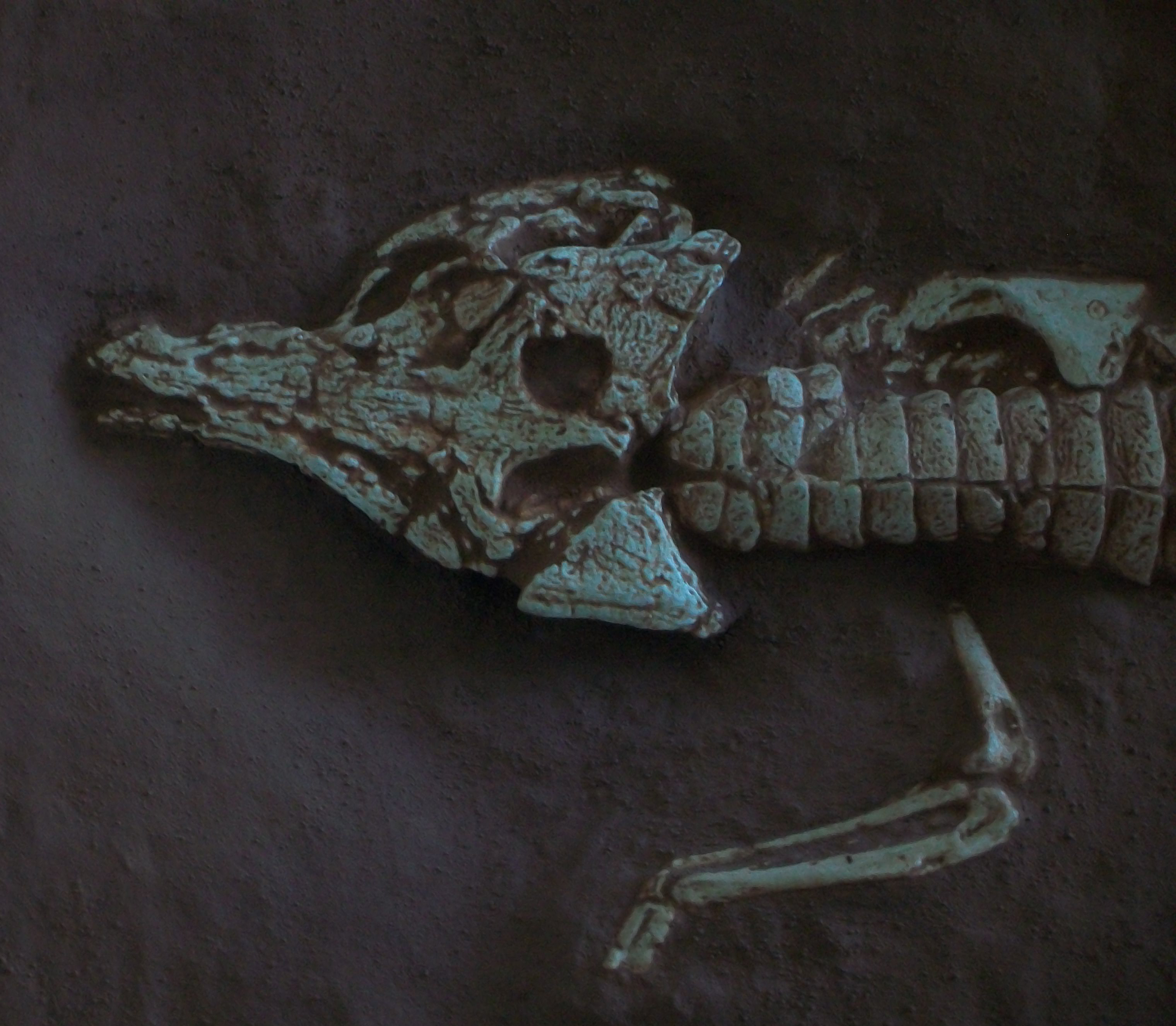 The skull of Protosuchus richardsoni, part of a fossil cast (specimen AMNH 3024) in the American Museum of Natural History.